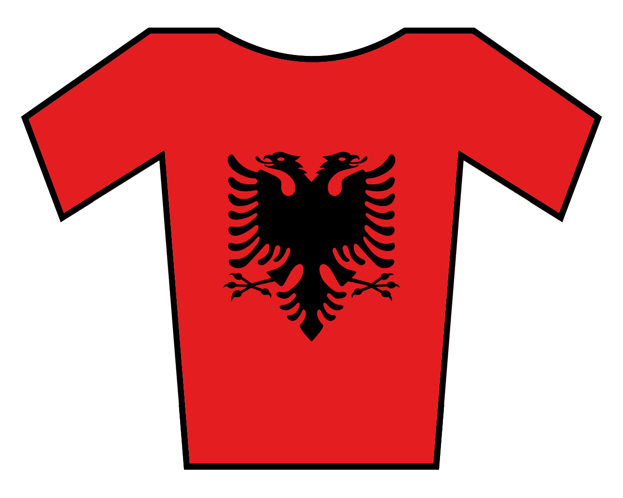 National champion cycling jersey of Albania